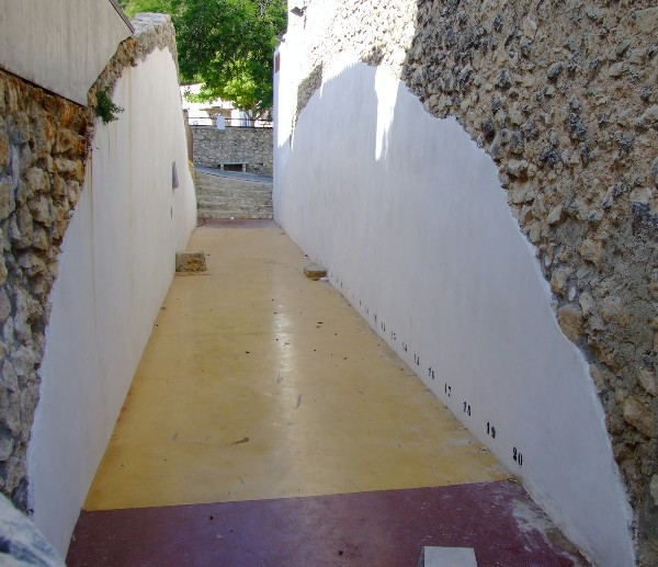 General view of Abdet's trinquet after the rebuilding